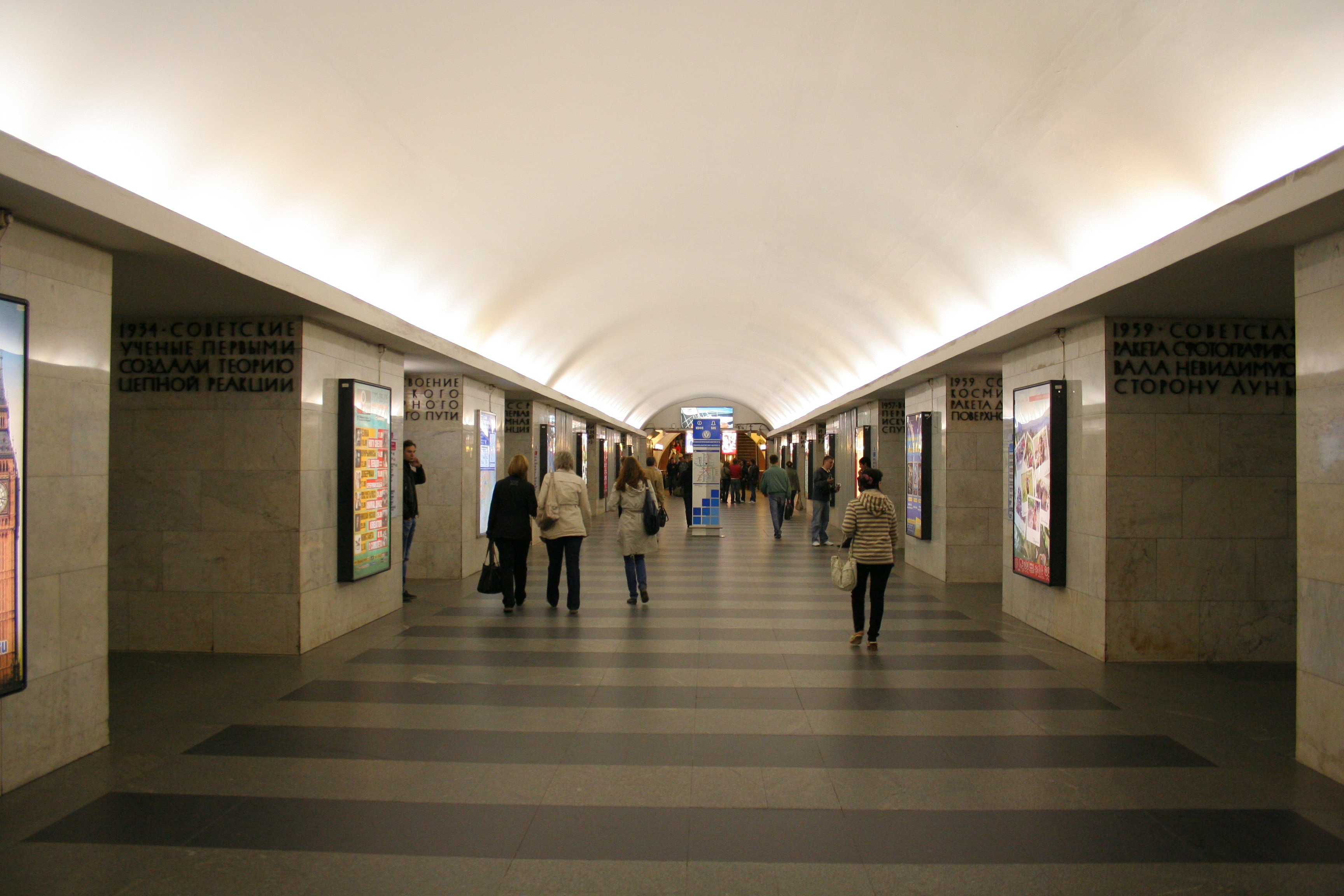 Tekhnologichesky Institut-2 station of Saint Petersburg Metro